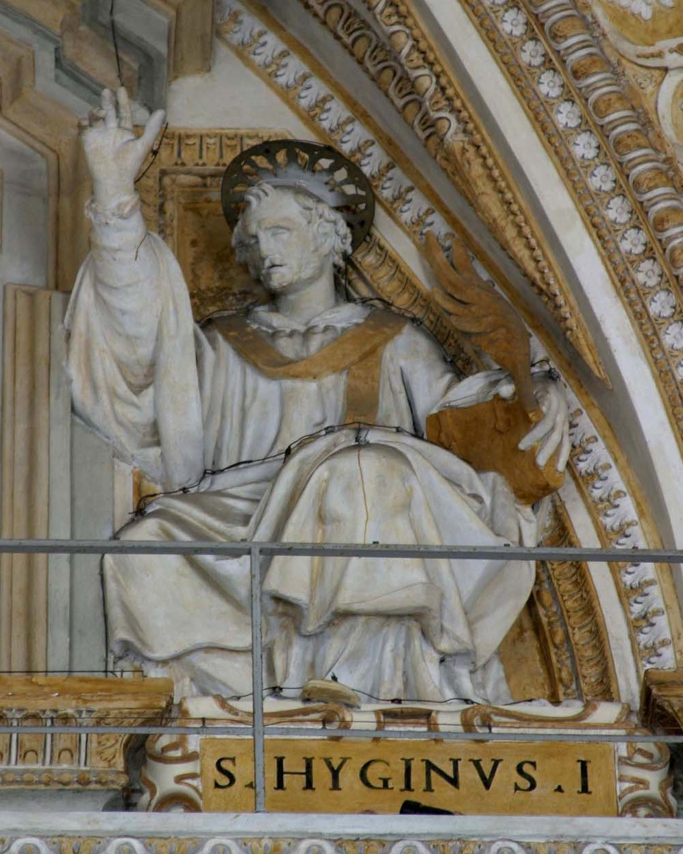 St. Hyginus, statue a S. Pietro in Vaticano portico.